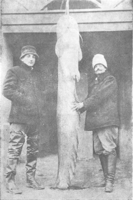 Mihailo Petrović and Crown Prince Đorđe Karađorđević, with the caught fish, Belgrade 1906. (Foundation “Mihailo Petrović”)